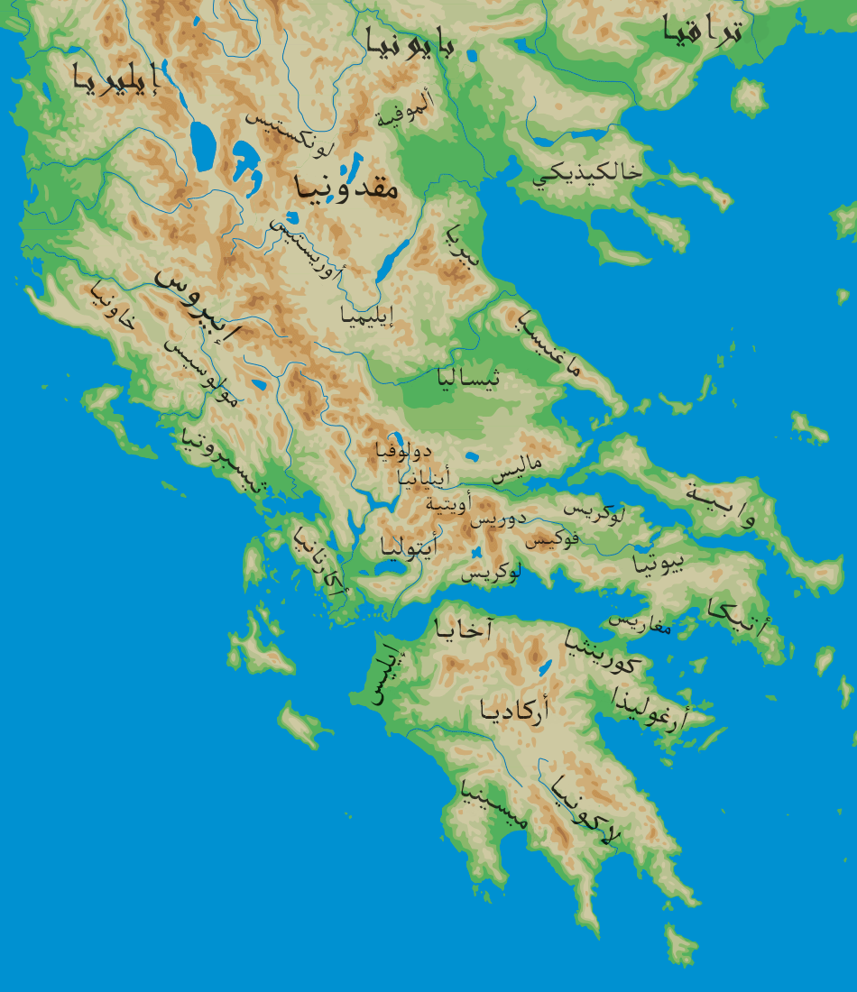 Map of the major regions of mainland Ancient Greece.